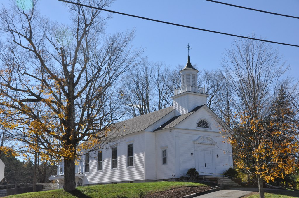 The congregational church of Wilmot, New Hampshire.